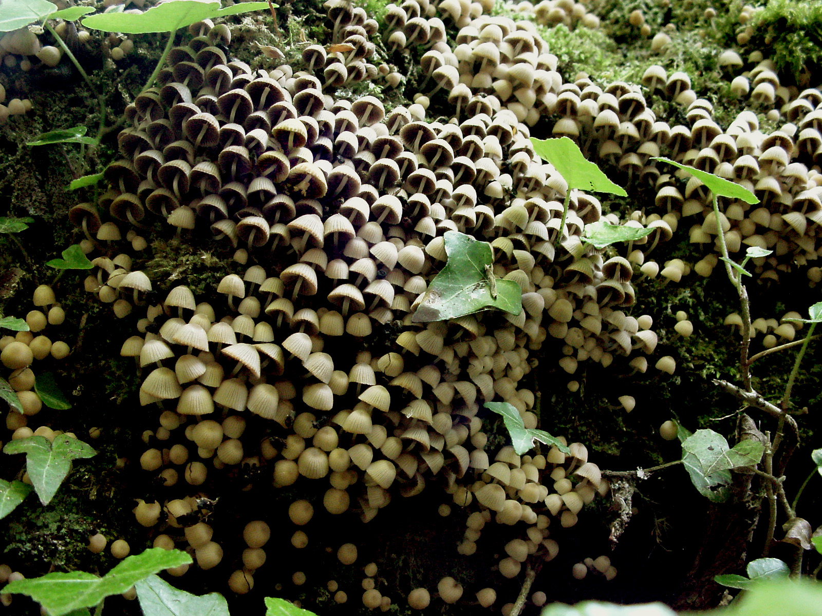 Mushroom are able to concentrate heavy metals (lead, mercury, copper..°. Those mushrooms are growing ner a former ammunition stock place, in the Red Zone (zone rouge) reforested after first World War, in Verdun Forest (France).